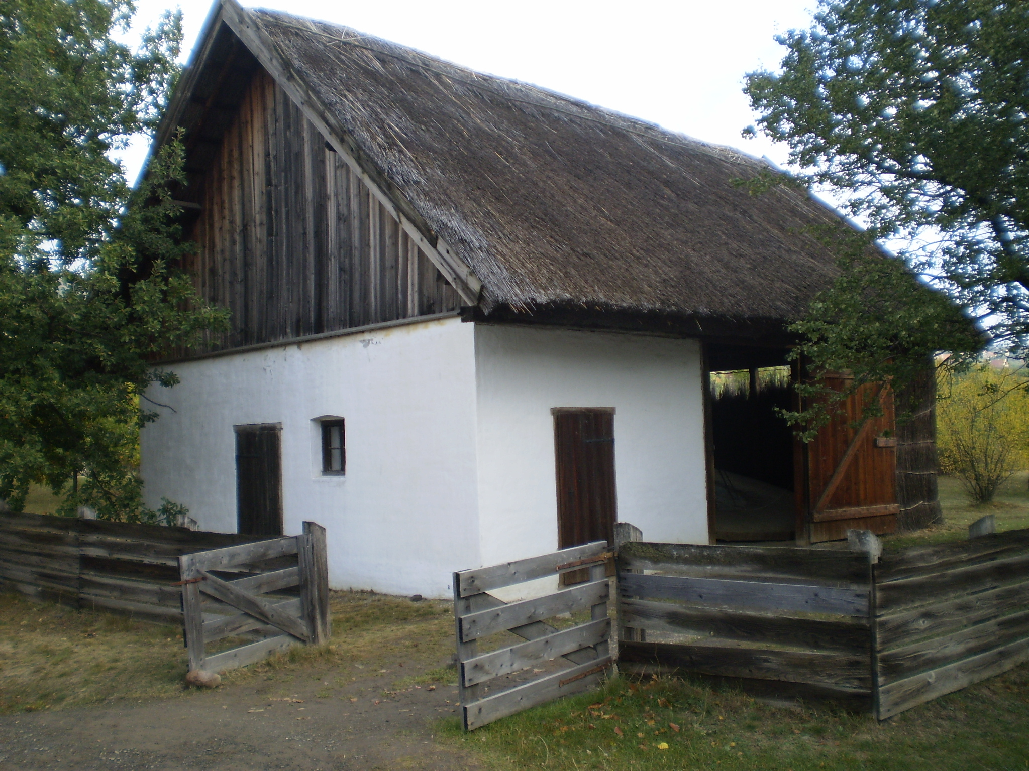 Treadmill, Mosonszentmiklós, Hungary